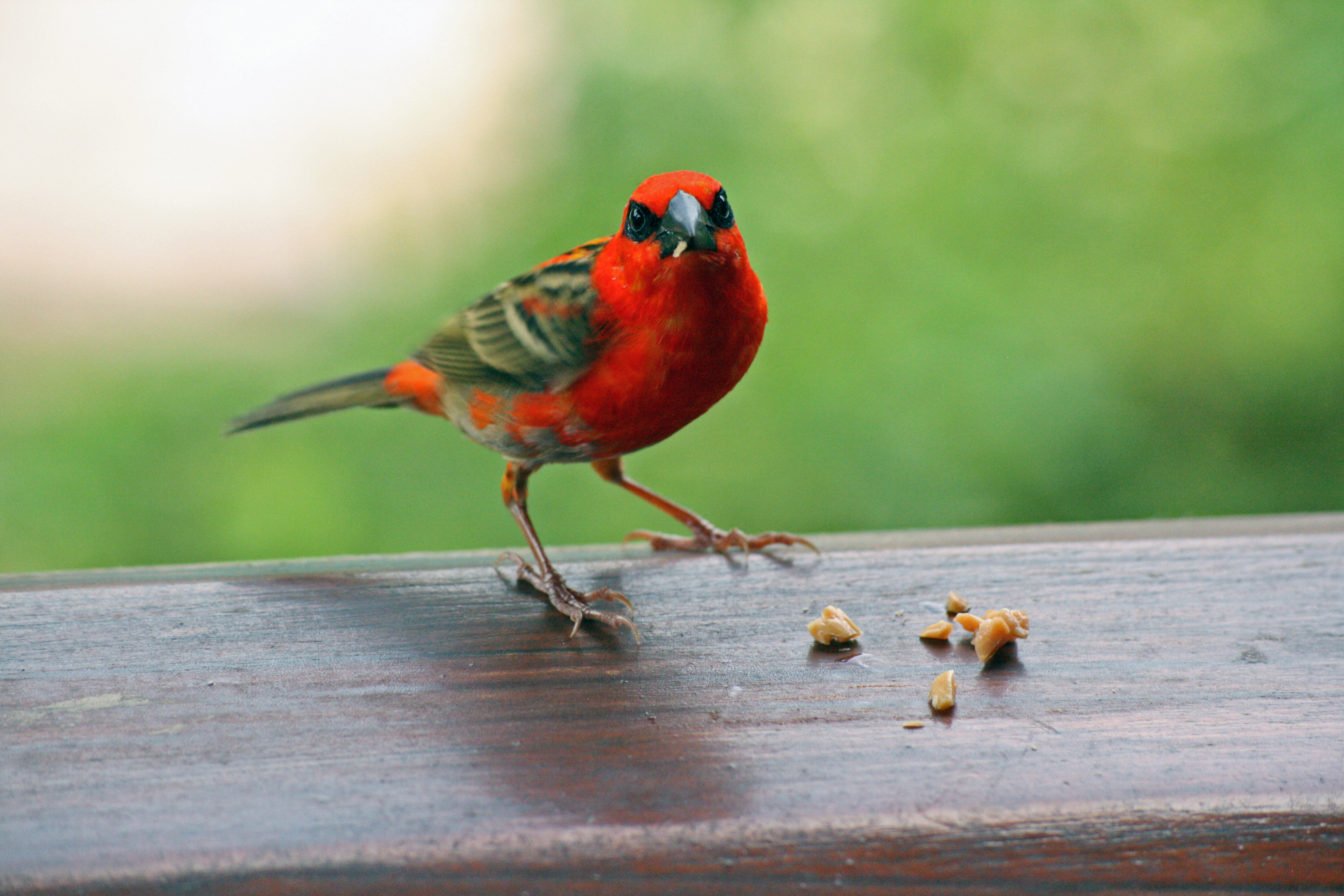 Foudia madagascariensis ("Madagascar Fody")) on Praslin island on the Seychelles